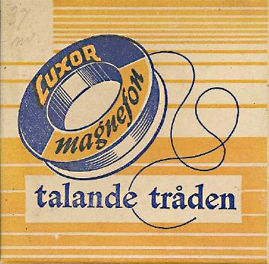 Box containg recording wire for wire recorder Magnefon by Luxor, Sweden